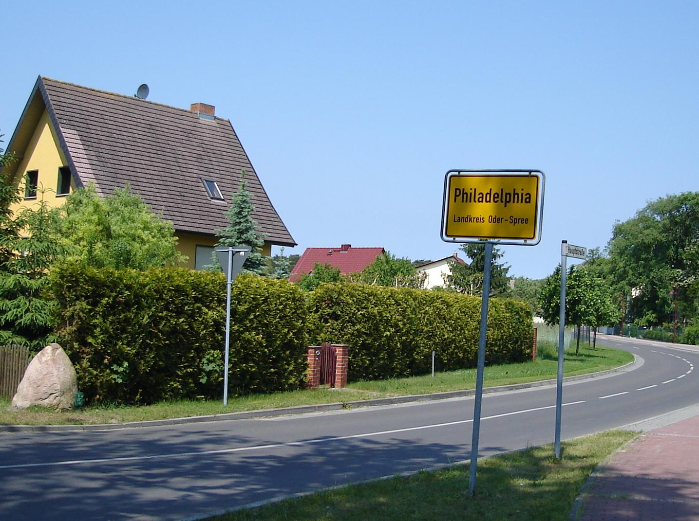 Philadelphia in the German state Brandenburg, village entrance